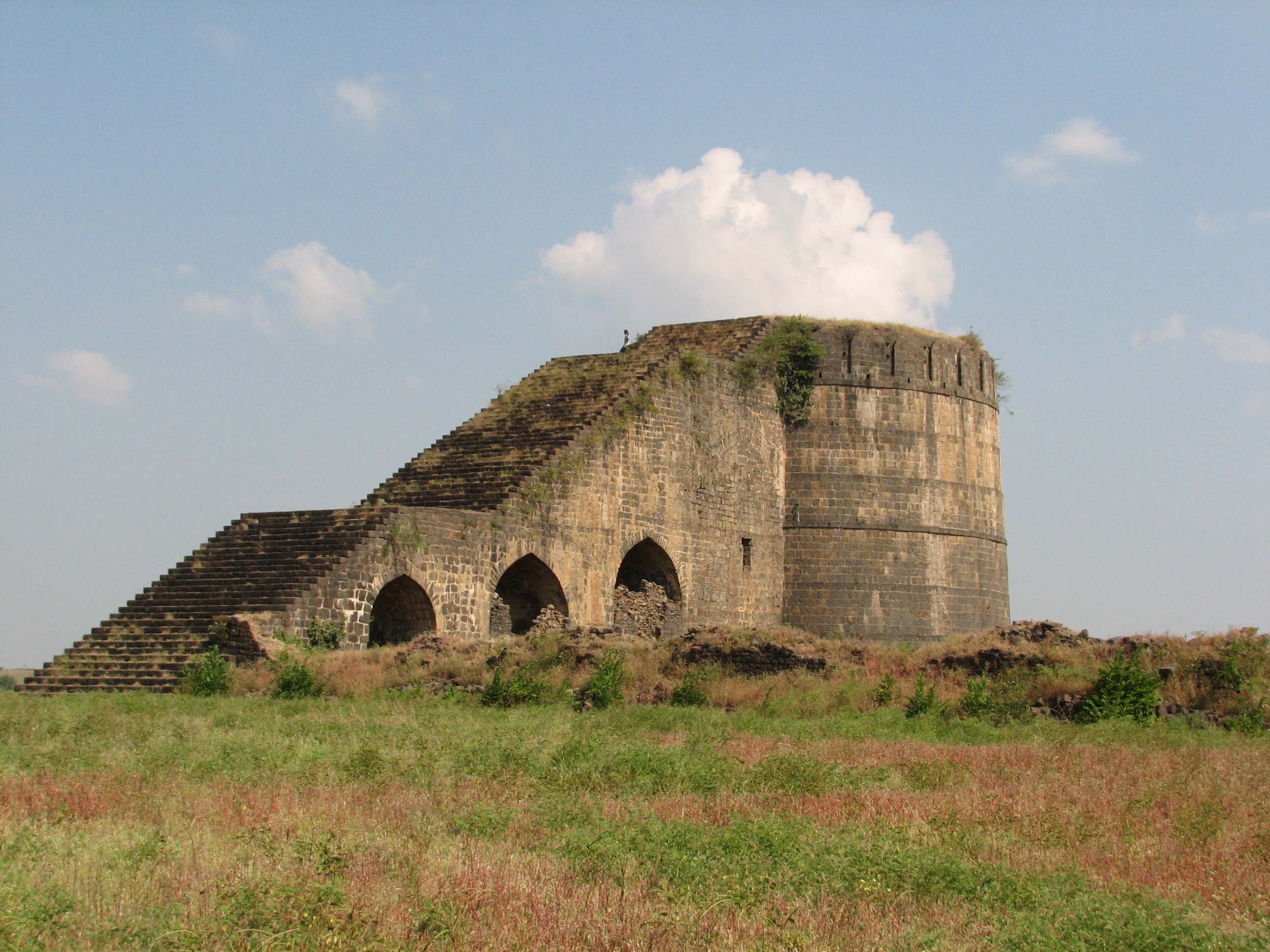 This is the central watch towers upali buruj in Naldurg Fort, India.